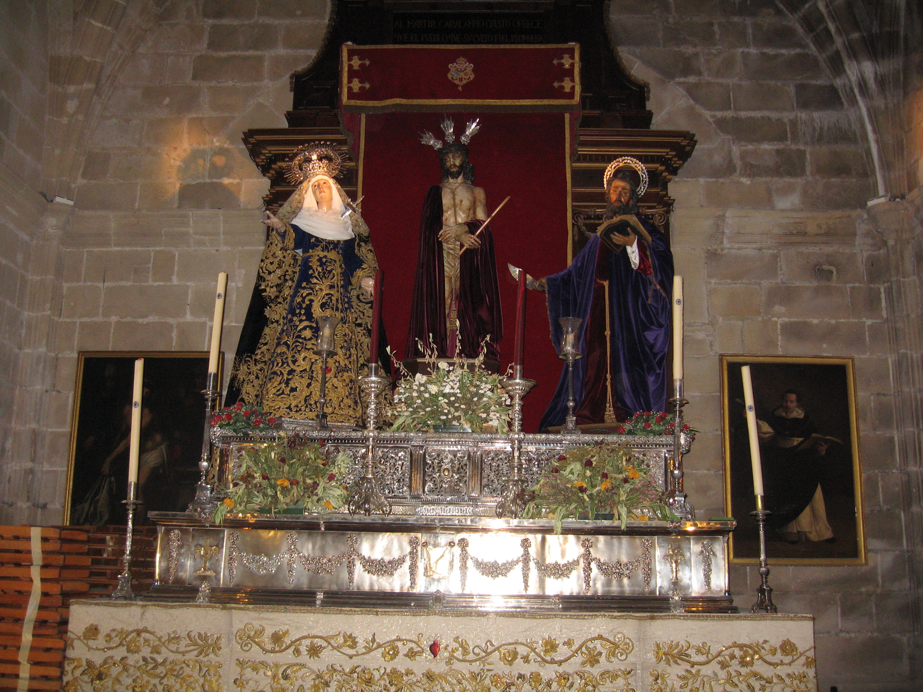 Ecce Homo and Mayor Dolor at Cathedral of Jerez de la Frontera, Andalusia (Spain)